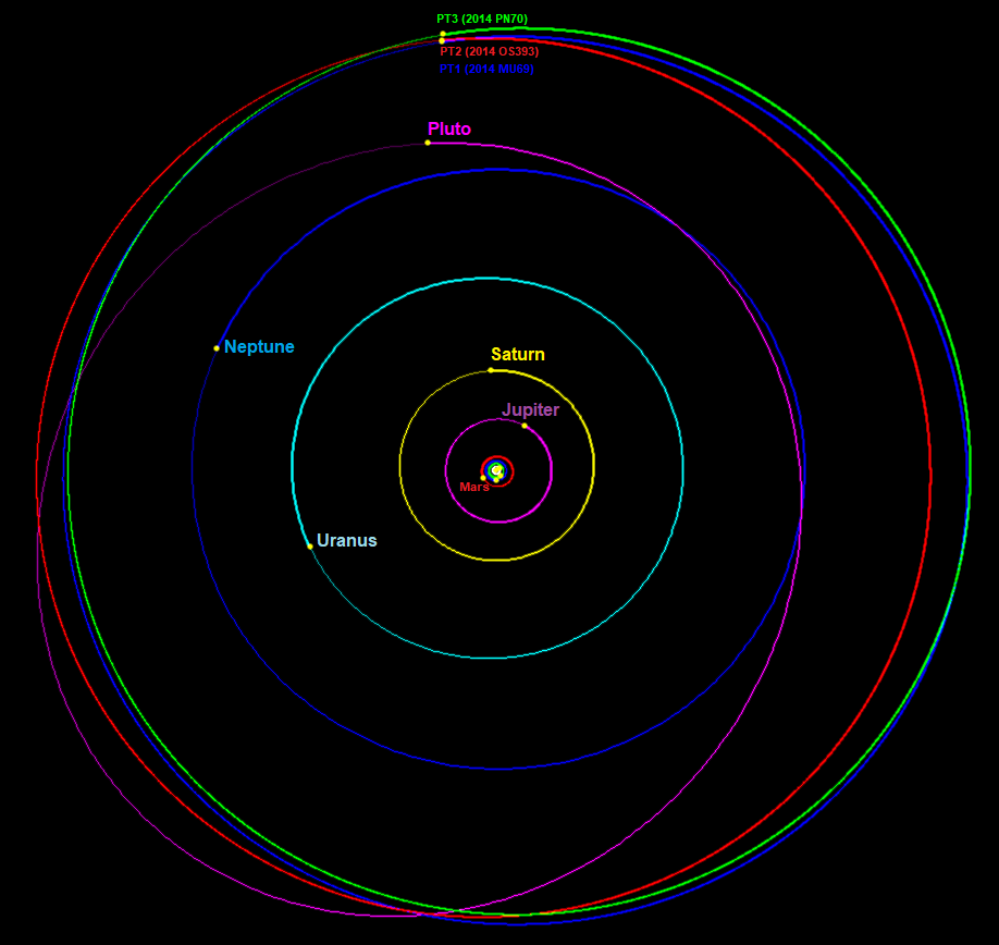 New Horizons Potential targets 1-3 orbits and positions on 2019/1/1. PT1 (2014 MU69) was the chosen target.